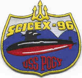 SCICEX 96 Naval expedition logo for the USS Pogy (SSN-647)